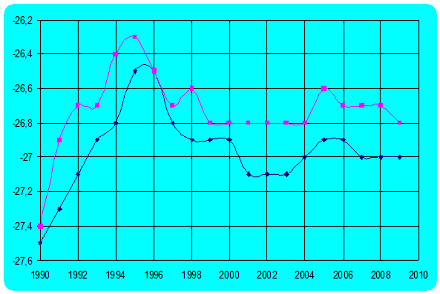 Dynamics of perennial change of maximum and minimum temperature of seawater